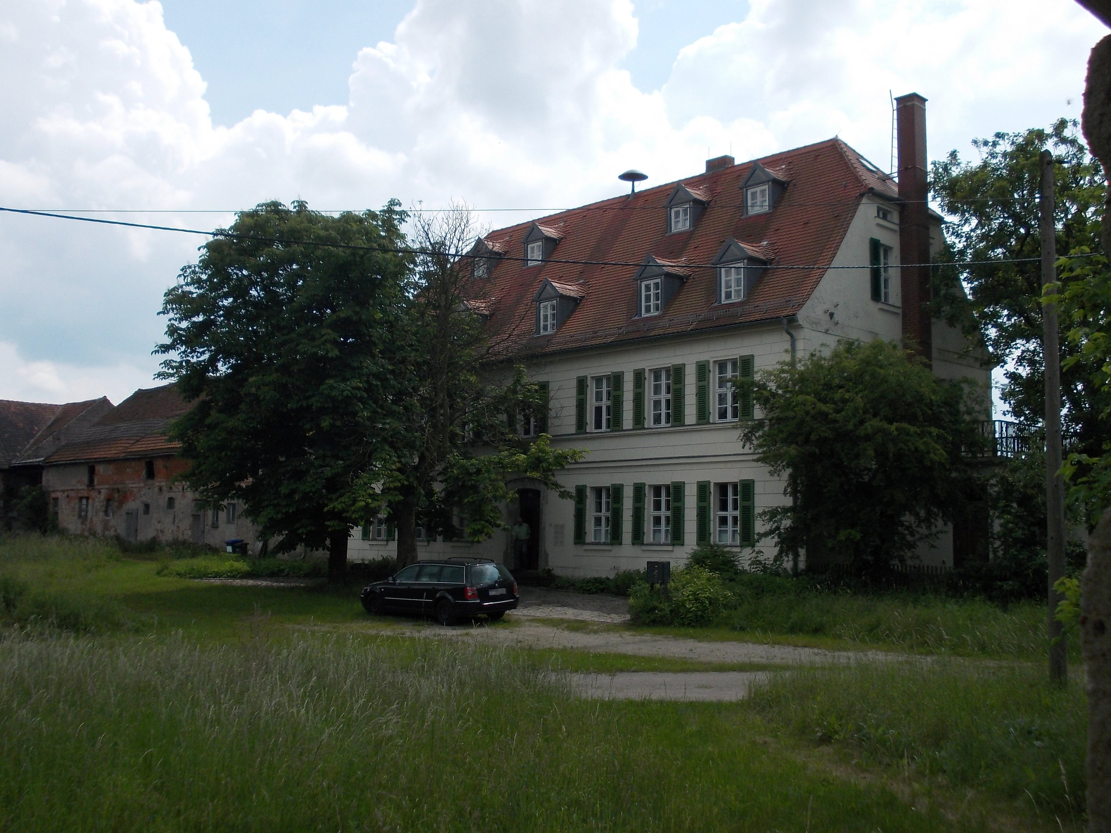 Manor house of Gräfendorf estate (Mockrehna, Nordsachsen district, Saxony)